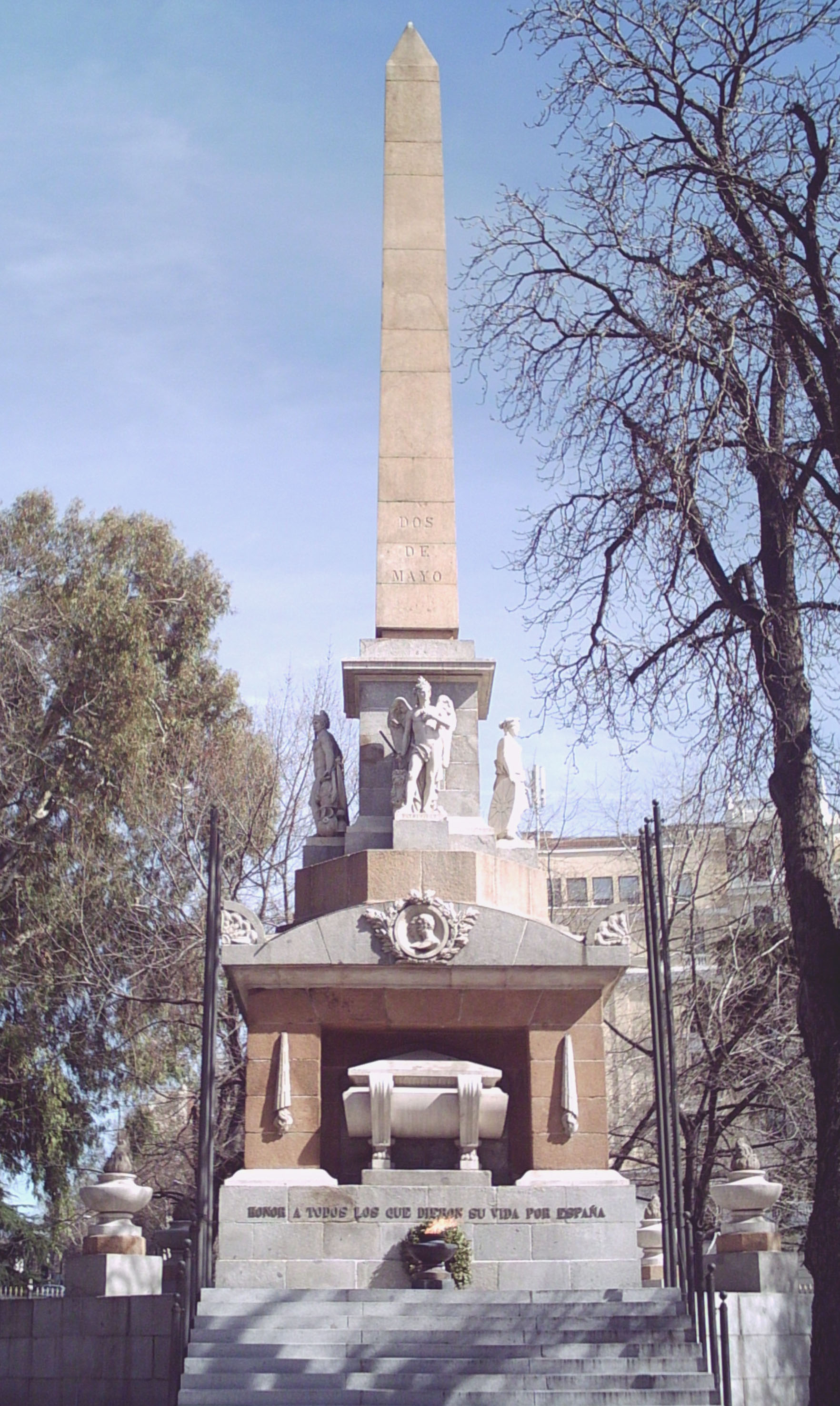 West side of the Monument to the Fallen for Spain at the Plaza de la Lealtad (square) in Madrid (Spain). Inaugurated in 1840 as a Monument to the Heroes of The Second of May and built according to a 1821 design by Isidro González Velázquez (1765–1840). In 1985 it was re-inaugurated as a monument in Honour of all those who gave their lives for Spain (inscription in the base) and an eternal flame was added.